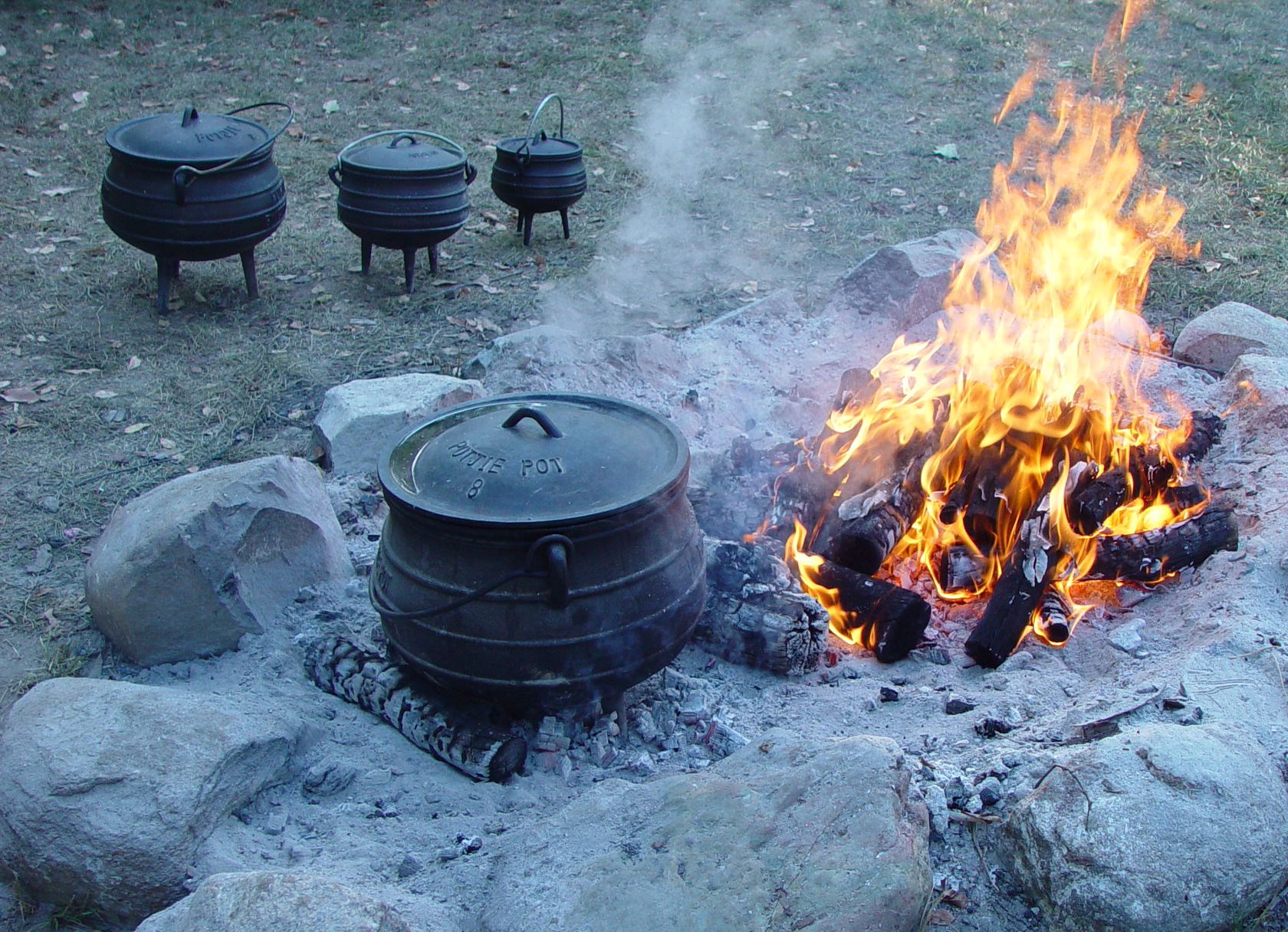 Dutch ovens